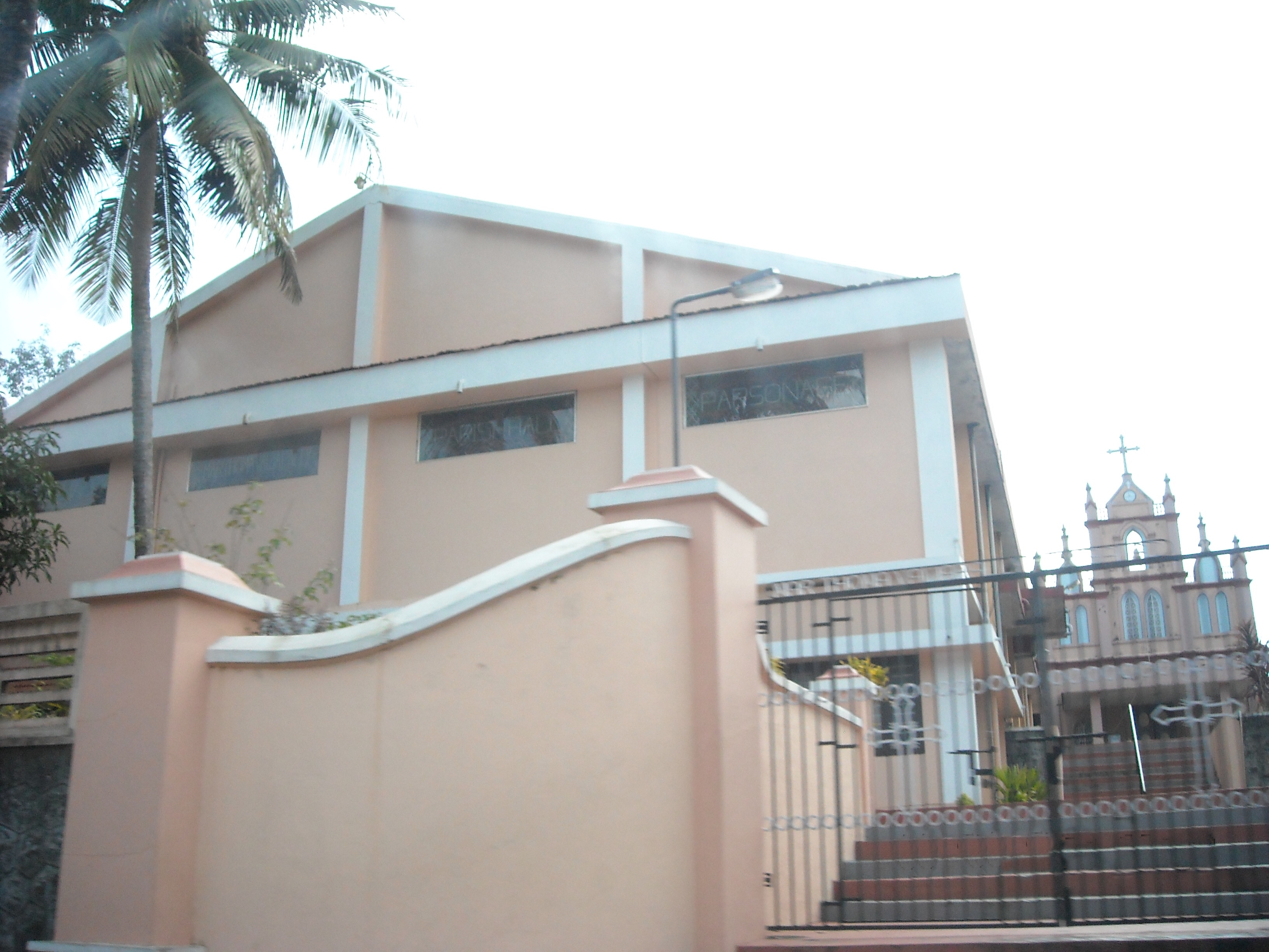 Valiyapalli